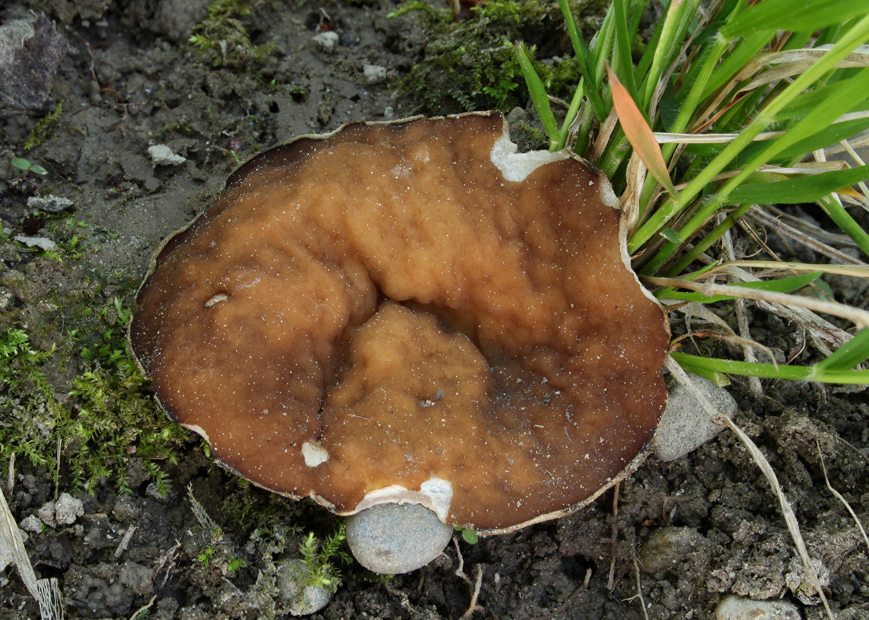 Veiny Cup Fungus or Cup Morel, Disciotis venosa, Family: Morchellaceae, Location: Germany, Ulm, Senden